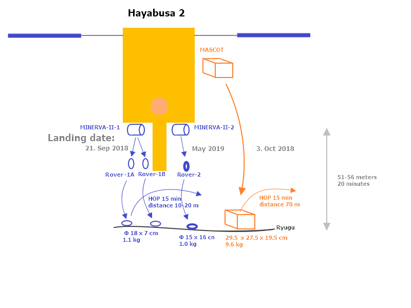 Hayabusa2 hopping rovers - MINERVA-II1 Rover-1A and Rover-1B, MINERVA-II2 Rover-2, MASCOT